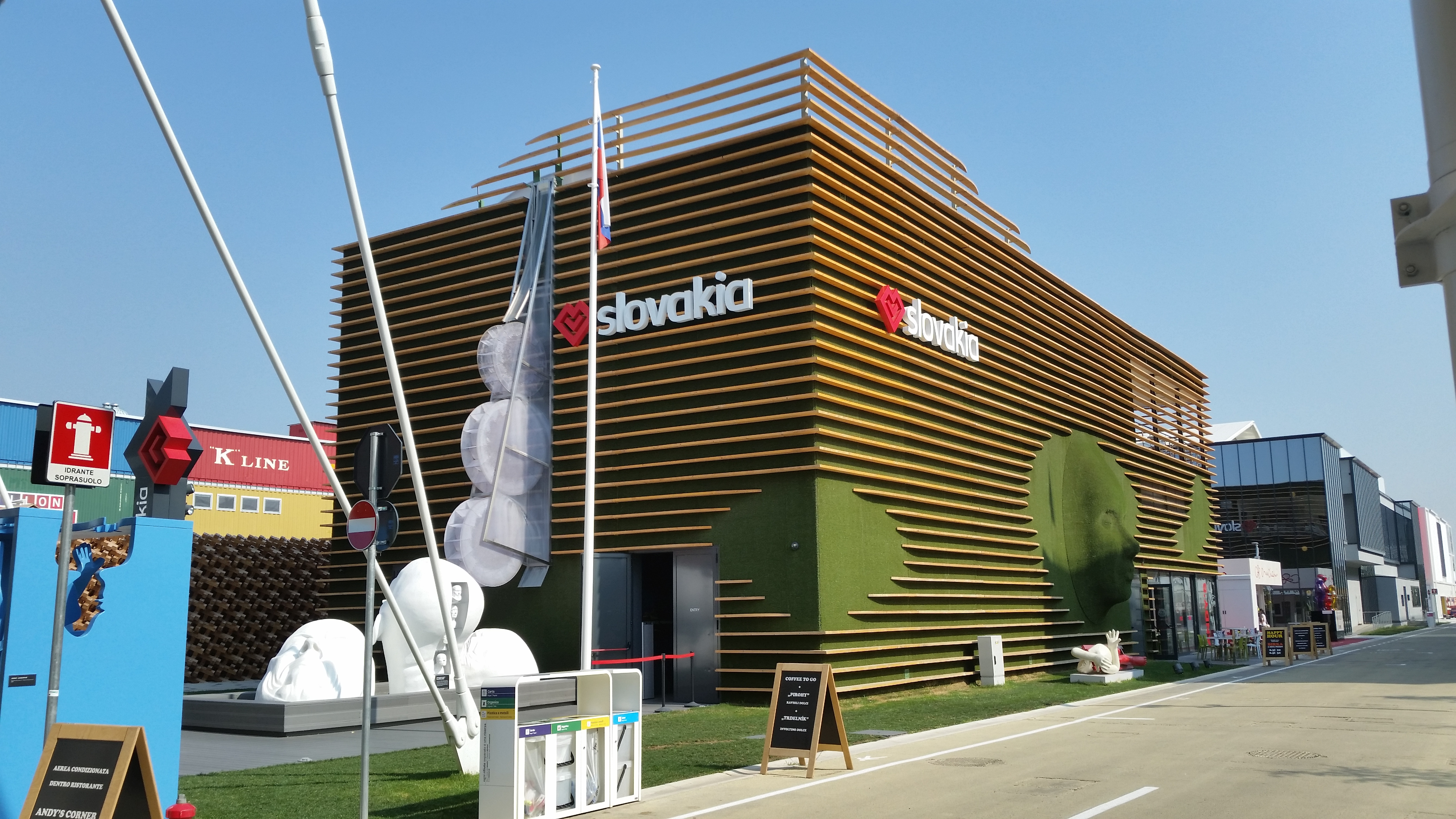 Pavilion of the Expo 2015 located in Milano (Italy)